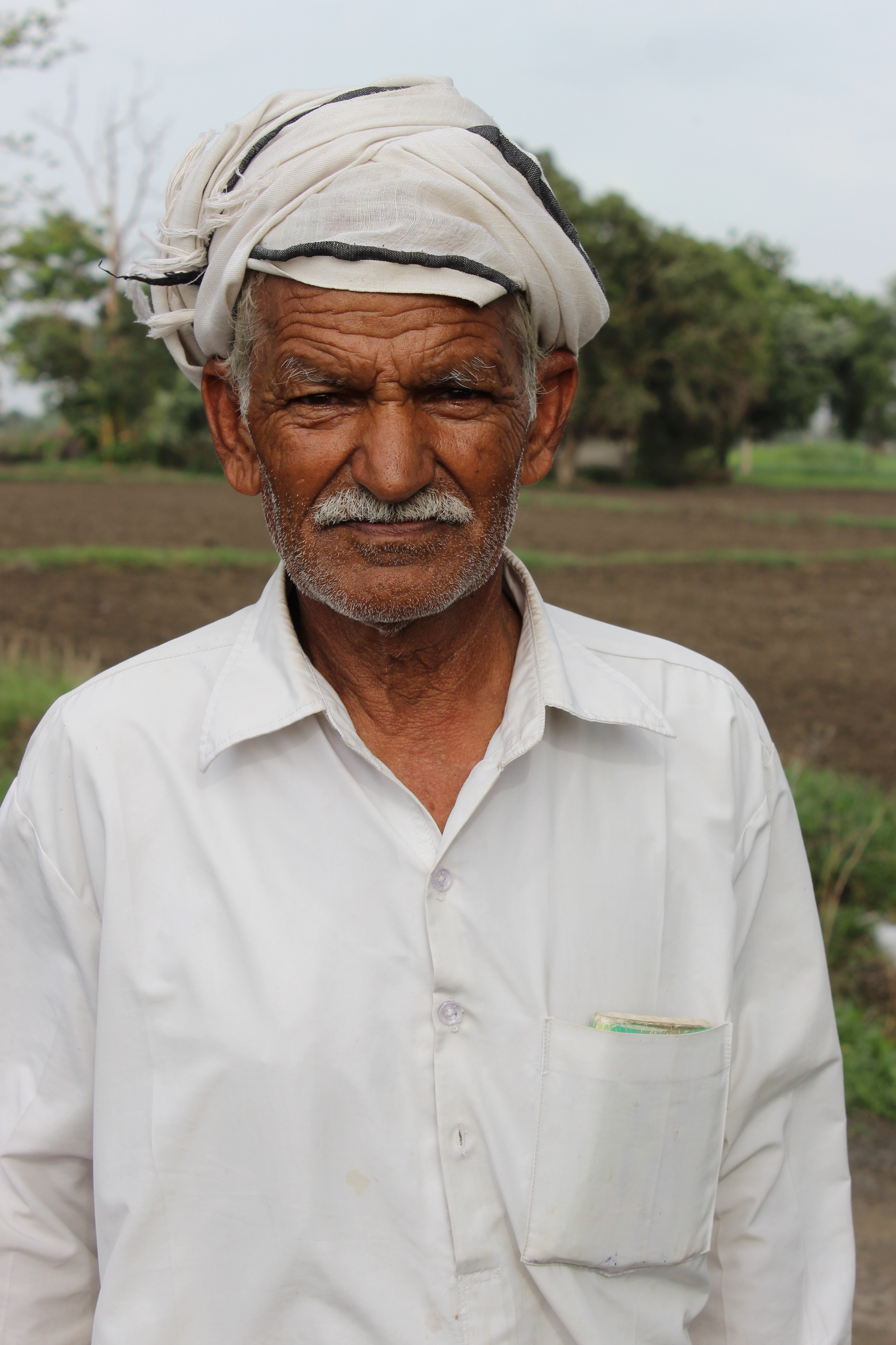 Farmer from Madhya Pradesh India